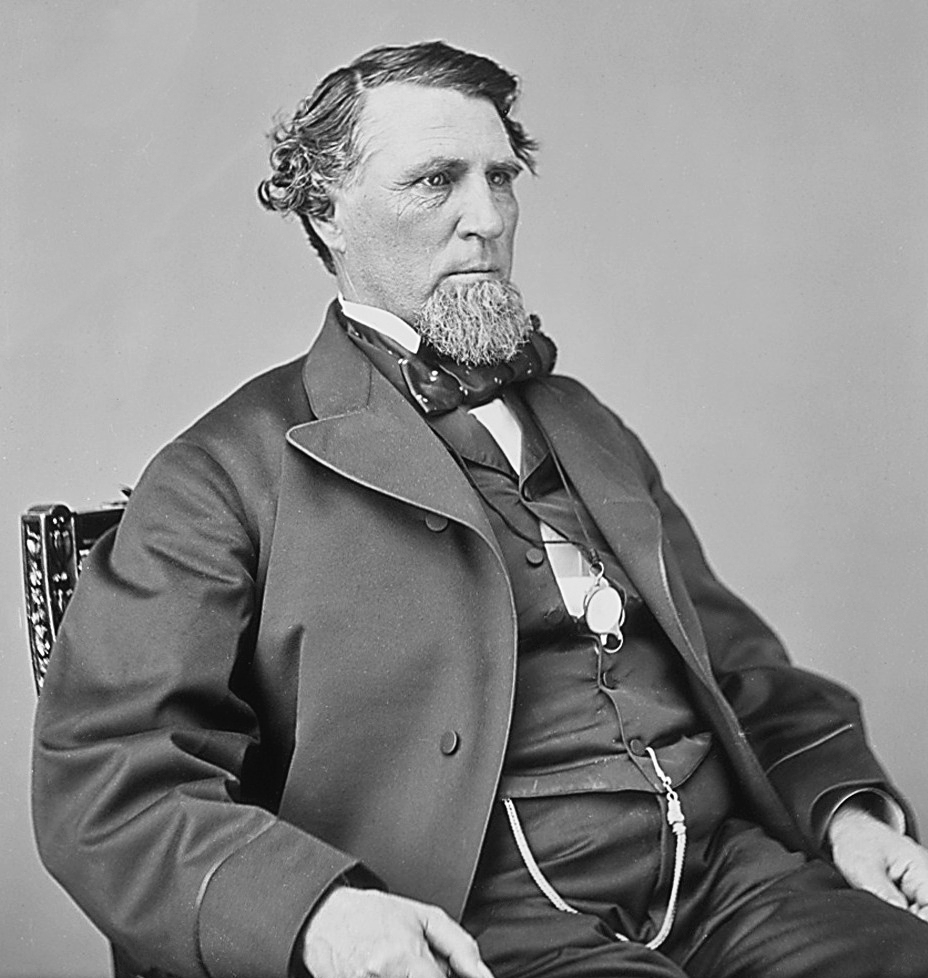 General notes: Cropped for display in Wiki articles